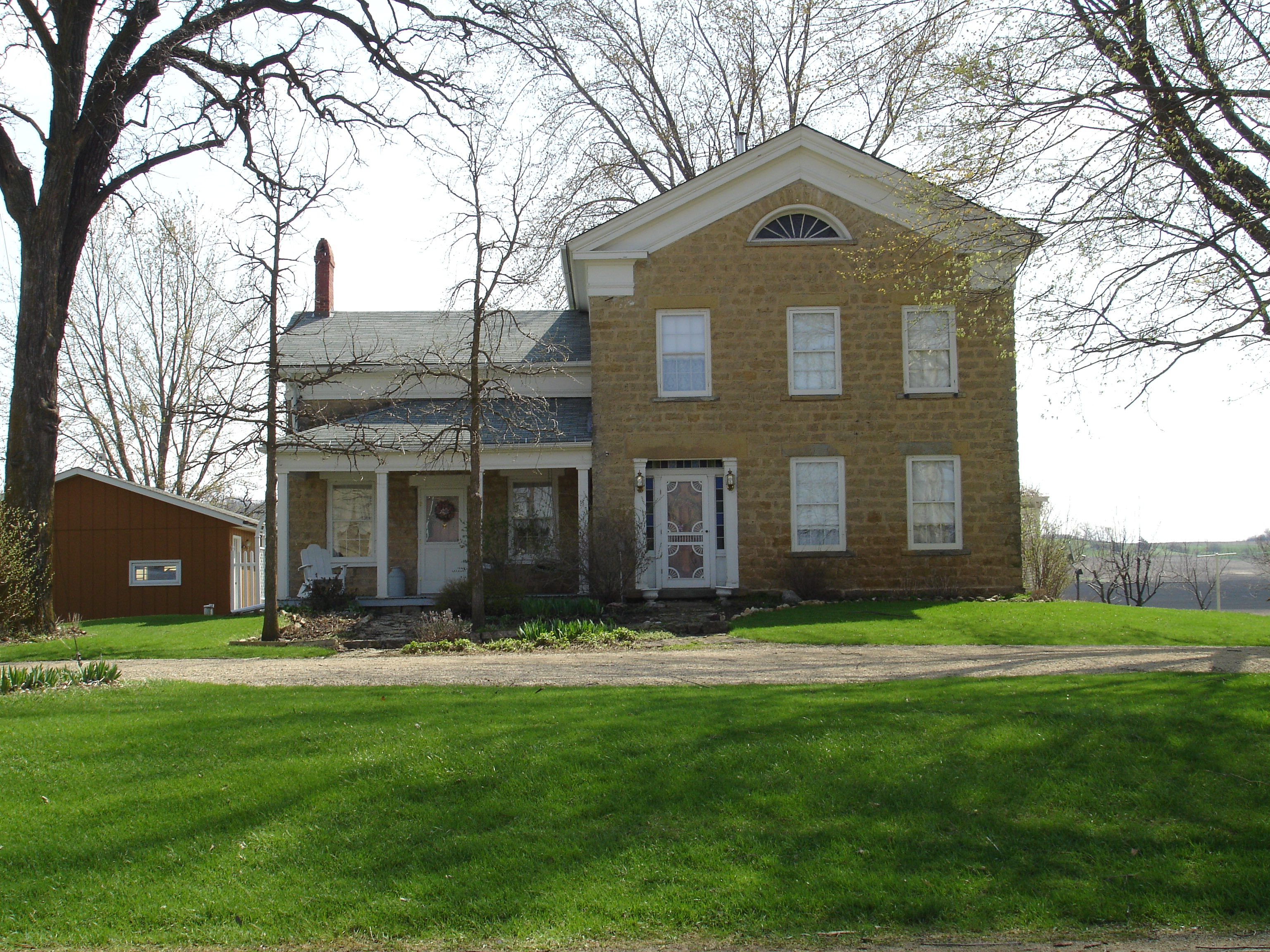 Townsend Home, near Stockton, Illinois, USA, U.S. National Register of Historic Places